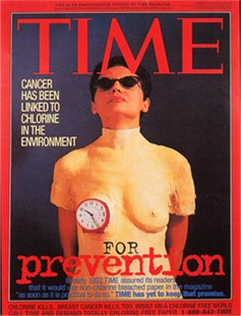 Matuschka's well known political poster addressing the use of chlorinated paper in printing. Done in the style of a Time magazine cover (Faux magazine cover)